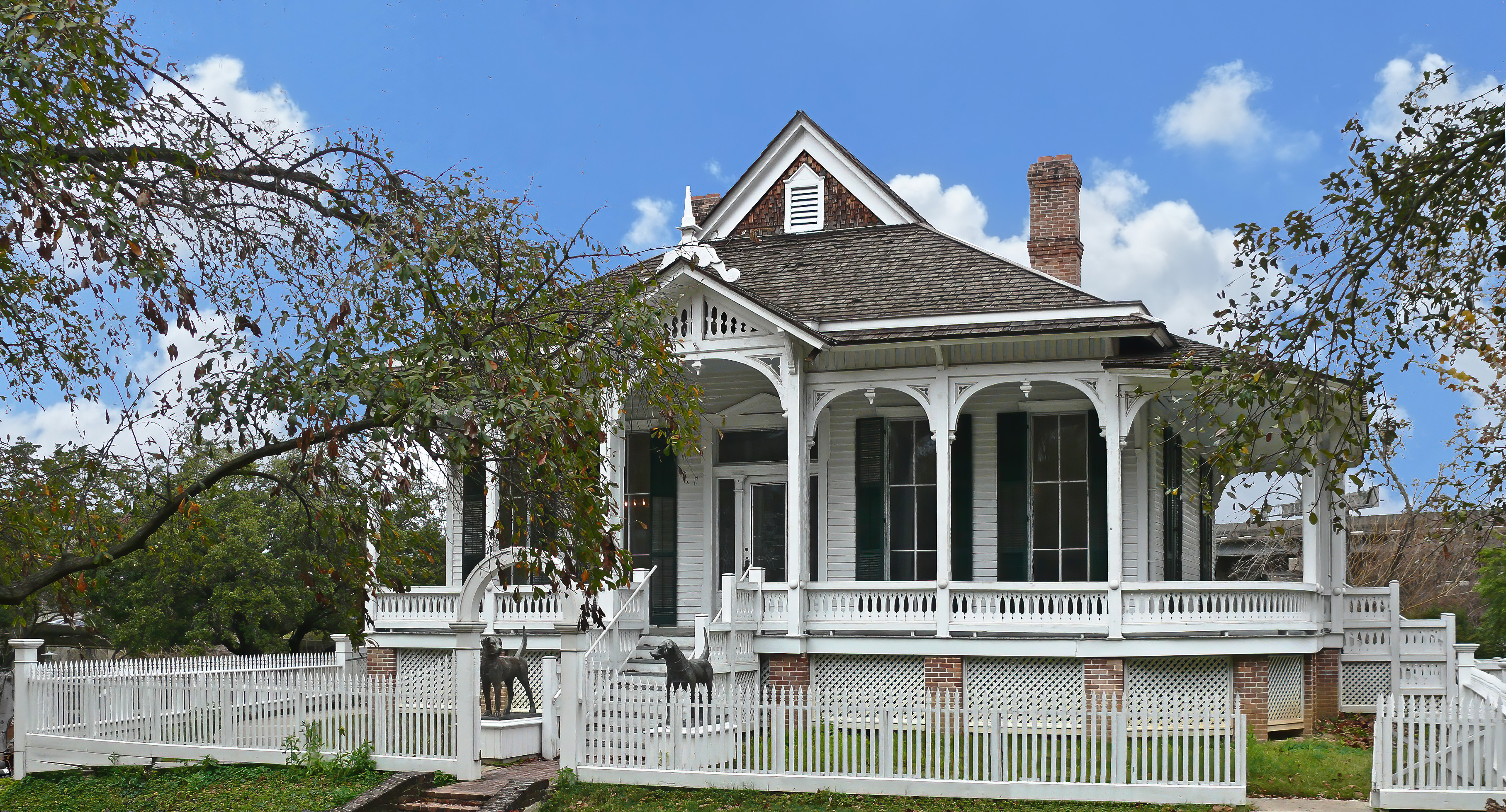 The 1868 Pillot House was built by Eugene Pillot and was originally located at 1803 McKinney. This house is an example of the Eastlake Victorian style. The repetitive balusters and two dimensional cut-out ornamentation seen on the house were made possible by new machinery of the time period. Architectural enhancements such as full-length windows and wrap-around porches illustrate how residences were adapted to the harsh climate of Houston.